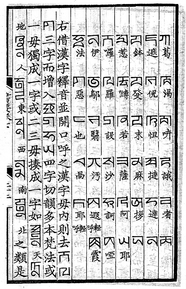 Page from the Shushi Huiyao 書史會要, showing the 41 letters of the 'Phags-pa script in the original (Tibetan-based) order, with corresponding Chinese characters. The text notes that when writing Chinese, the letters ꡘ, ꡢ and ꡥ are omitted and the letters ꡰ, ꡮ, ꡯ and ꡭ are added. Coblin, W. South (2006). A Handbook of 'Phags-pa Chinese. ABC Dictionary Series. Honolulu: University of Hawai'i Press. ISBN 978-0-8248-3000-7. p. 5.